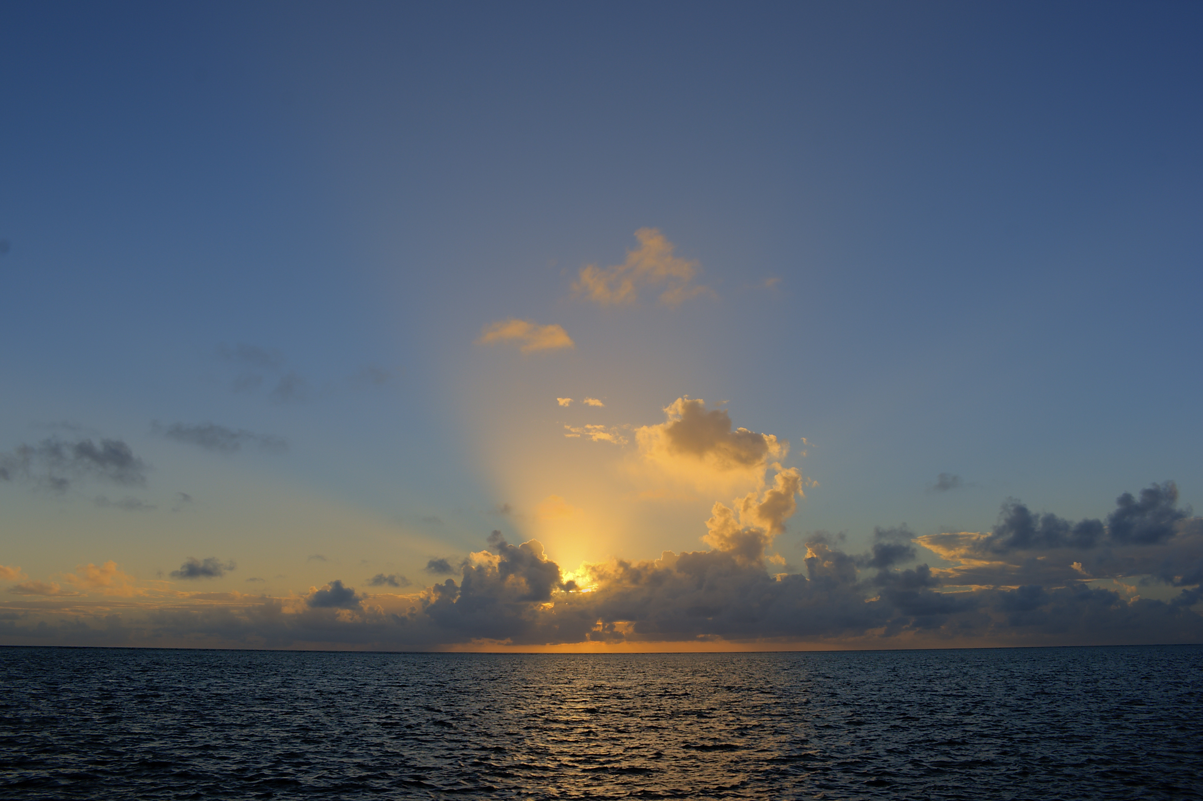 Sunrise at San Andres